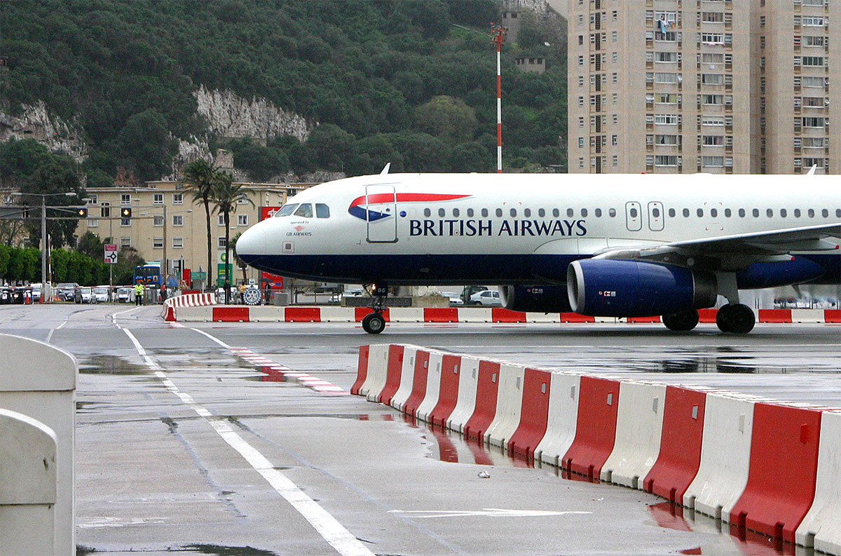 On Gibraltar Airport the only runway is crossing the main street which goes from Spain to Gibraltar. Everytime an aircraft wants to land or to start the street will be closed by the police (as can be seen at the backround of the picture).